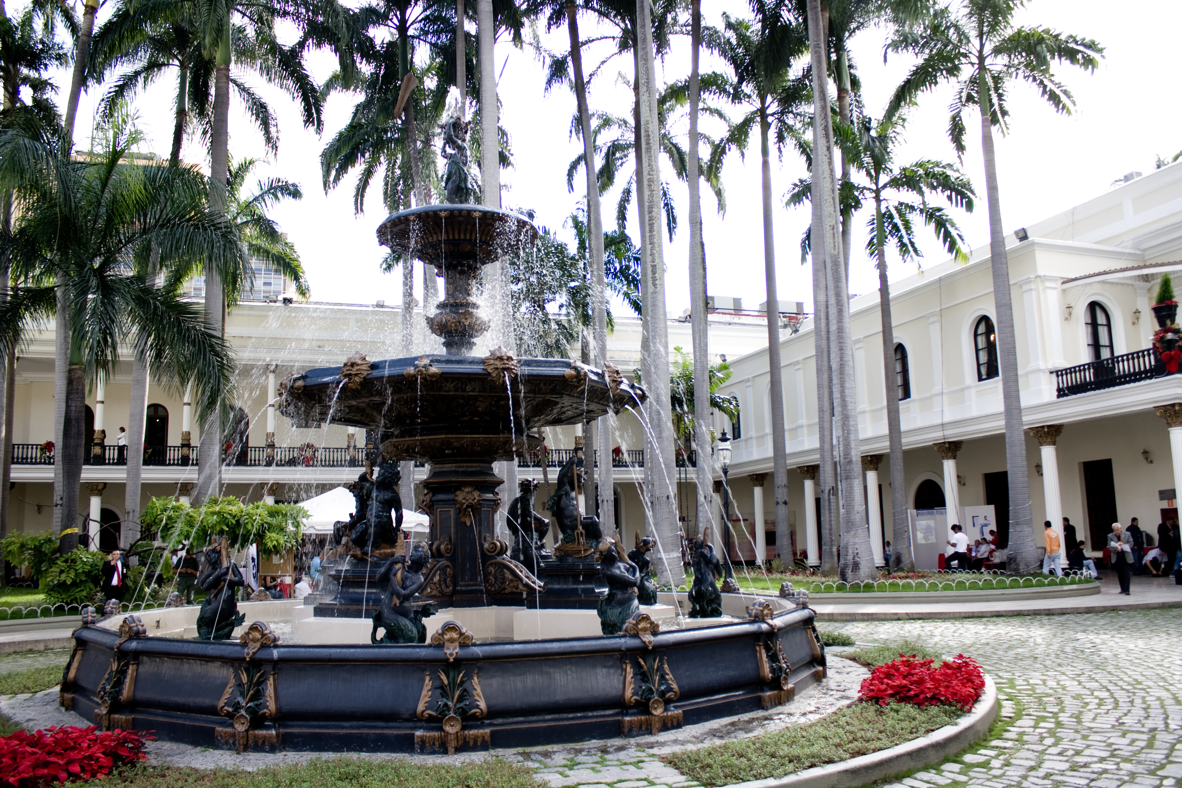 Interior of the Federal Legislative Palace, Caracas.